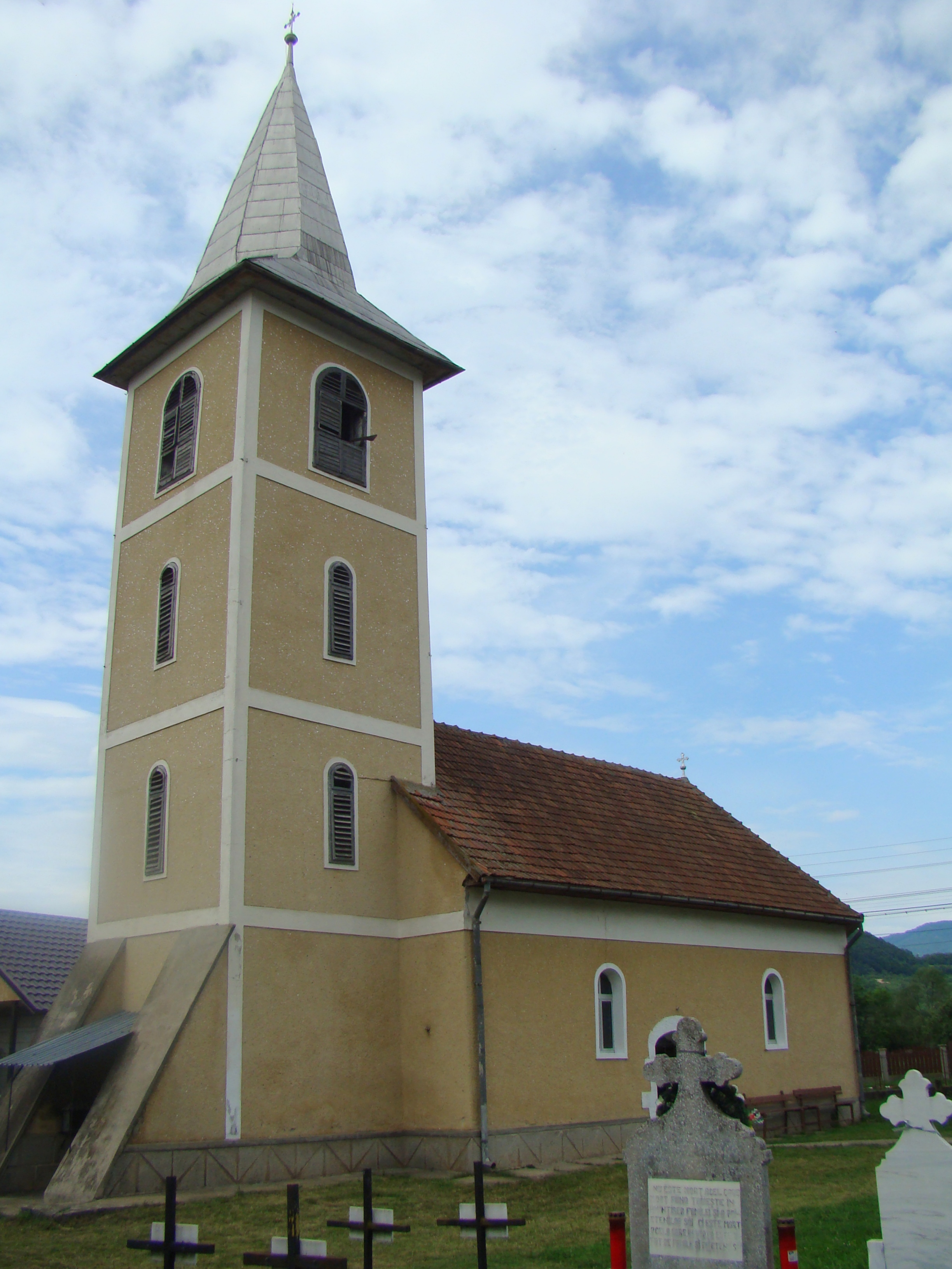 Church of the Annunciation in Băița, Hunedoara county, Romania